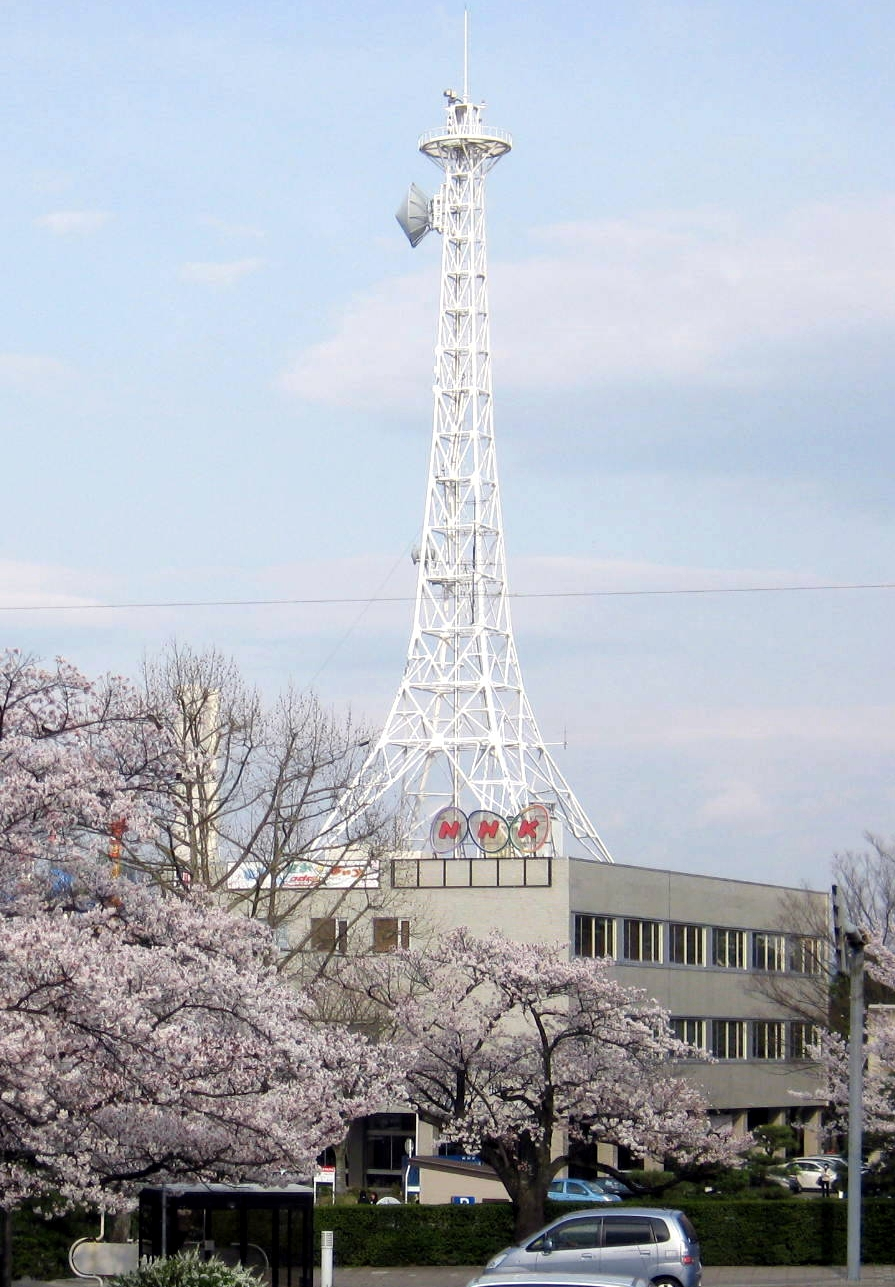 NHK Koriyama in Koriyama, Fukushima pref., Japan.